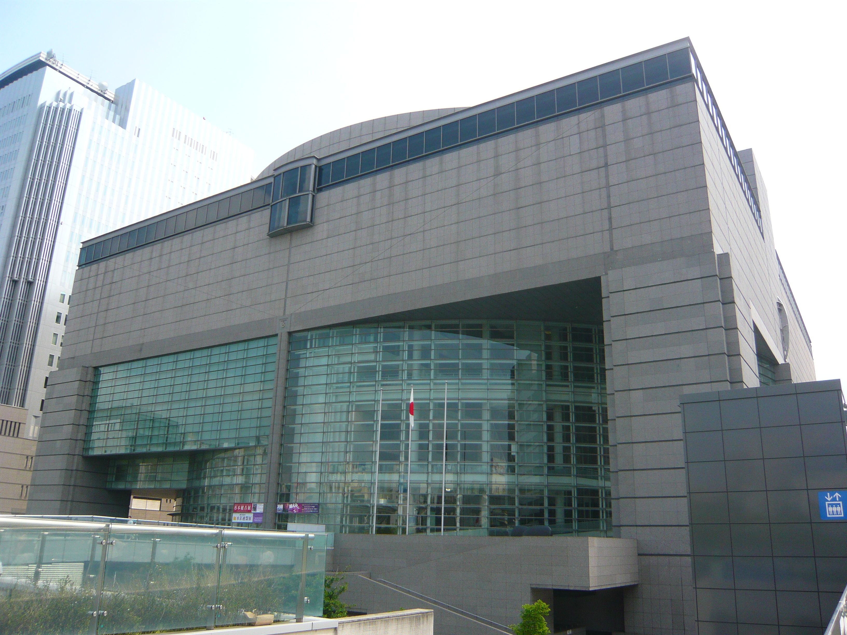 Aichi Arts Center, Higashi-ku, Nagoya, Aichi, Japan